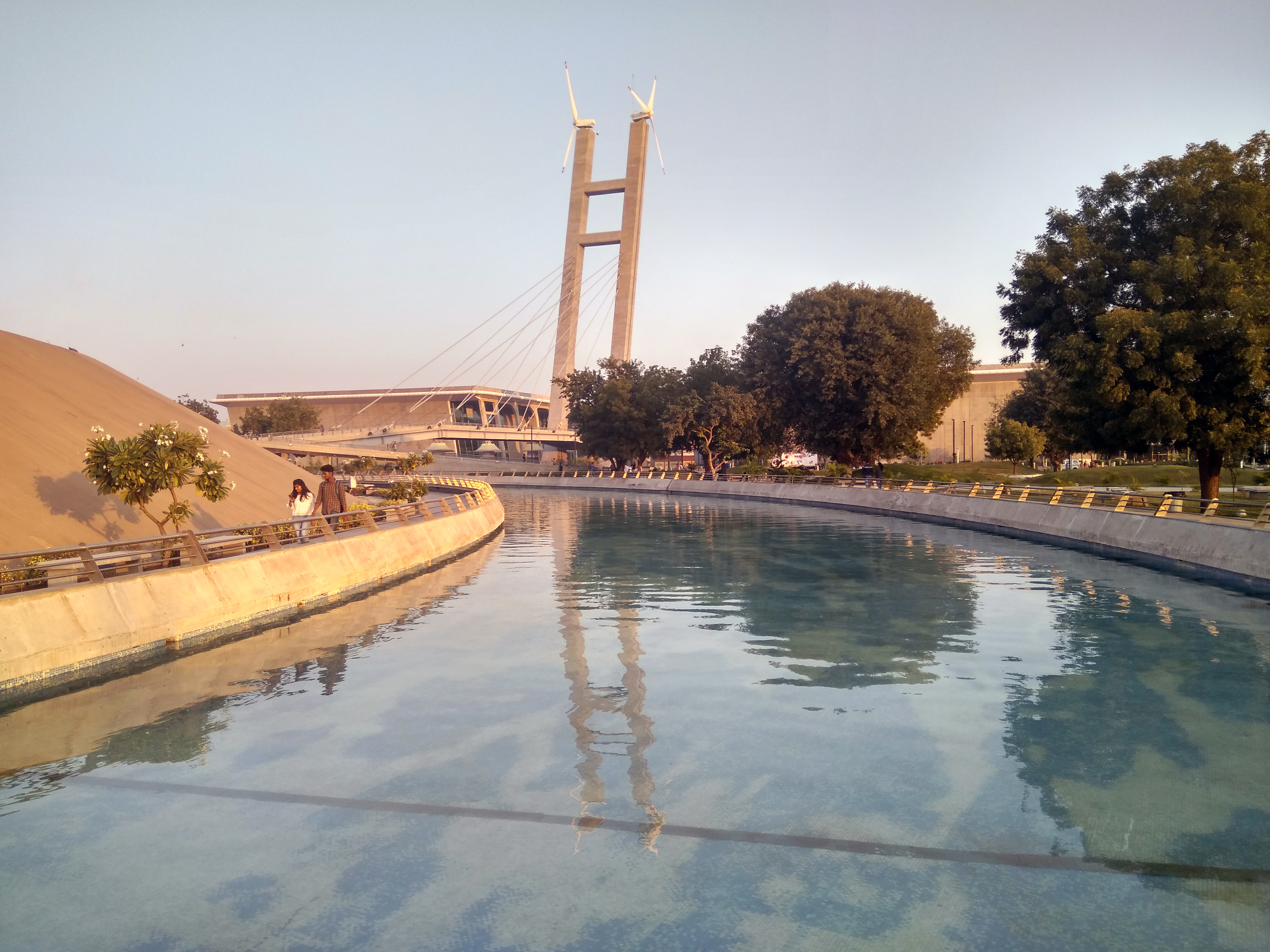 ગુજરાતી: Mahatma Mandir or Mahatma Temple is a museum attributed to M.K.Gandhi at Gandhinagar,Gujarat.